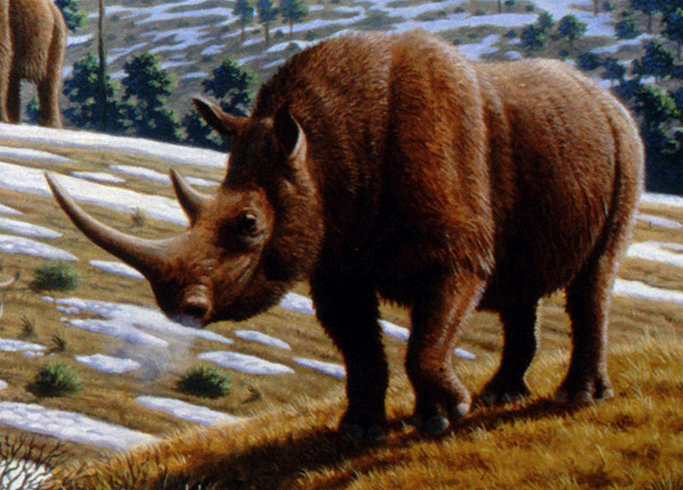 A woolly rhinoceros (Coelodonta antiquitatis) in a late Pleistocene landscape in northern Spain. (Information according to the caption of the same image in Alan Turner (2004) National Geographic Prehistoric Mammals, Washington, D.C.: National Geographic ISBN 9780792271345, ISBN 9780792269977)